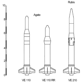 SEREB Agate and Rubis rockets